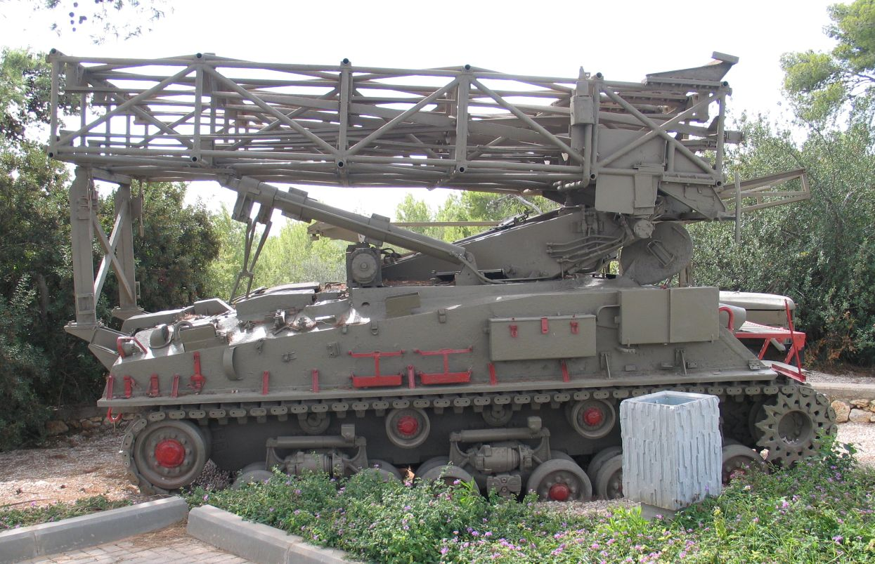 Description: Israeli MAR-290 290 mm ground-to-ground missile launcher on M4 Sherman chassis in Beyt ha-Totchan, Zichron Yaakov, Israel. 2005. Source: Photo by me, User:Bukvoed.